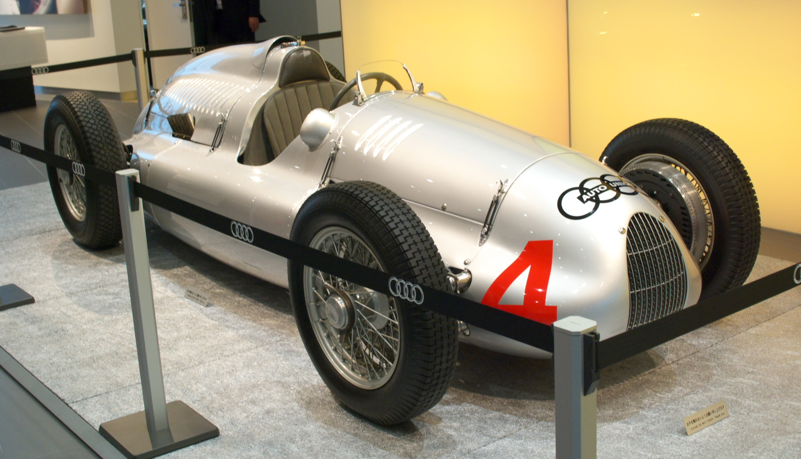 1938 Auto Union Type D in Audi Forum Tokyo